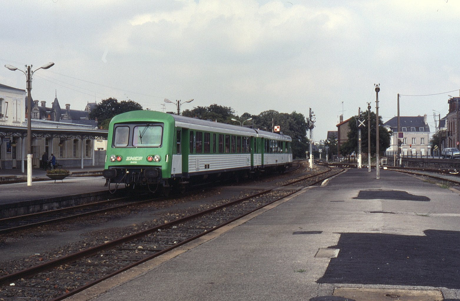 SNCF branch lines were very often difficult to cover on an out and back basis. So often frequencies were poor with services running to a erratic timetable which was season or day of the week dependant. One such line was that from Rennes to Châteaubriant in Brittany. An hour journey in each direction with a 2-hour layover at the end of the branch was not uncommon. Taken on 21 August 1992, 2-car Caravelle DMU set in the distinctive green and white livery found in the area was caught on camera. Train 87555,16:49Châteaubriant to Rennes. Unit formation was X4606 (power car) and X8406 (trailer).